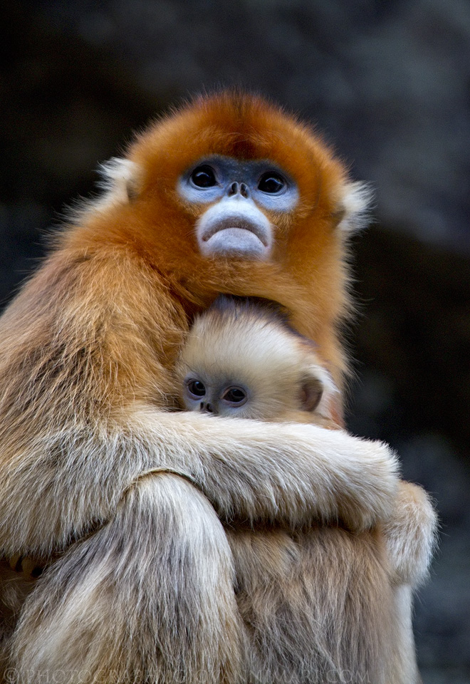 Golden Snub-nosed Monkeys in Qinling Mountains, China.